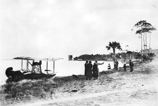 Seaplane used at Daytona. Photo dated to 1916. 1 copy available at Florida Photographic Collection.